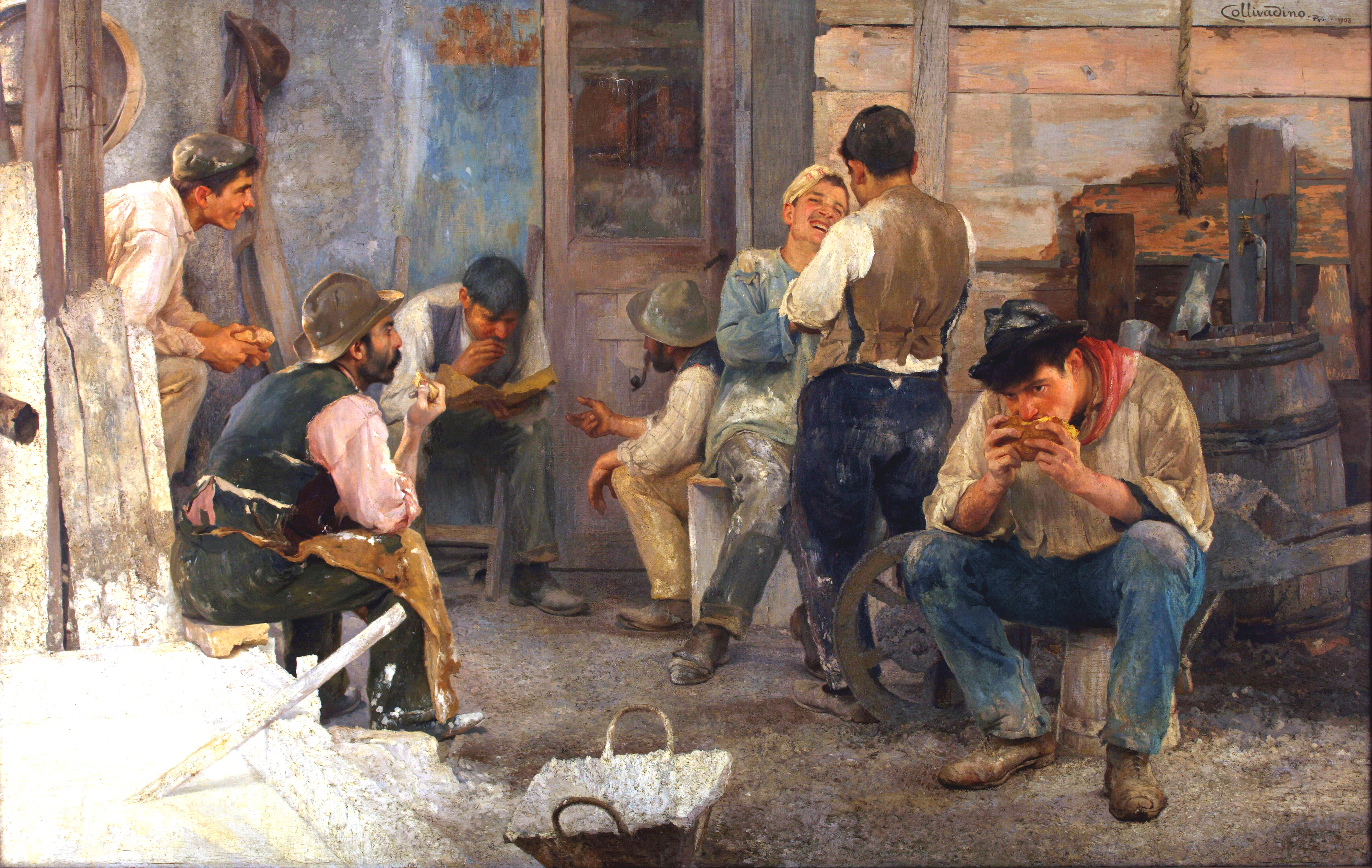 Lunchtime, oil on canvas.